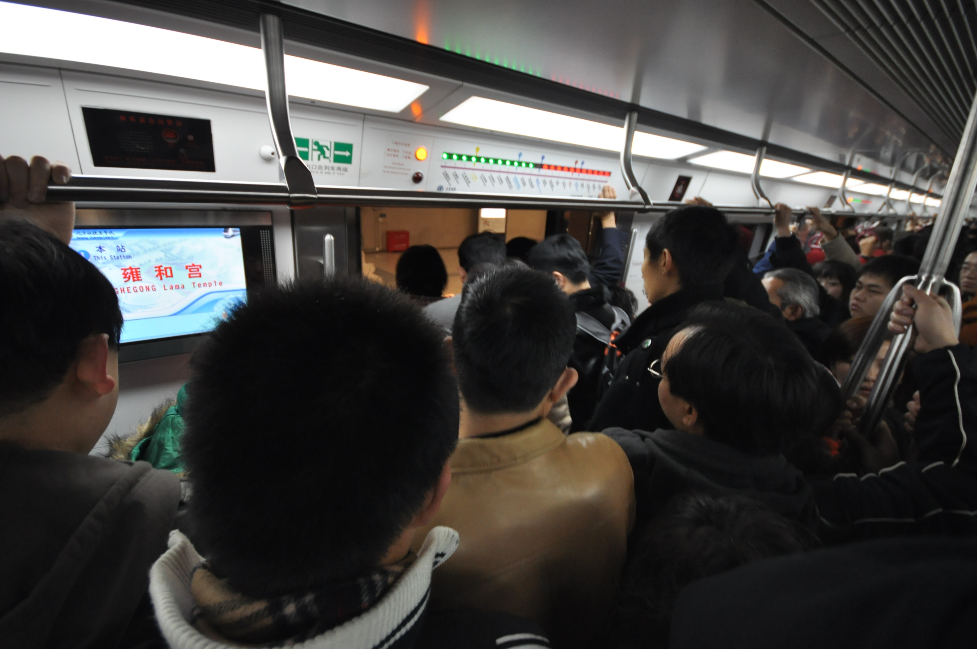 The Beijing Subway is a rapid transit rail network that serves the urban and suburban districts of Beijing municipality. With 8 lines, over 200 km of tracks and 123 stations currently in operation and ridership averaging 3.4 million per day, the Beijing Subway is the busiest in mainland China, and the second longest after the Shanghai Metro. Ridership set a daily record of 4.92 million on August 22, 2008. The existing network cannot adequately meet the city's mass transit needs and is undergoing rapid expansion. Three new lines were opened on July 19, 2008 ahead of the 2008 Olympic Games. Existing plans call for 19 lines and 561 km of tracks in operation by 2015. The Chinese government's 4 trillion economic stimulus package has further accelerated the timetable for subway construction. In addition to 7 lines already under construction, work is set to begin on 6 new lines in 2009, and the entire network will double in size to 420 km by 2012